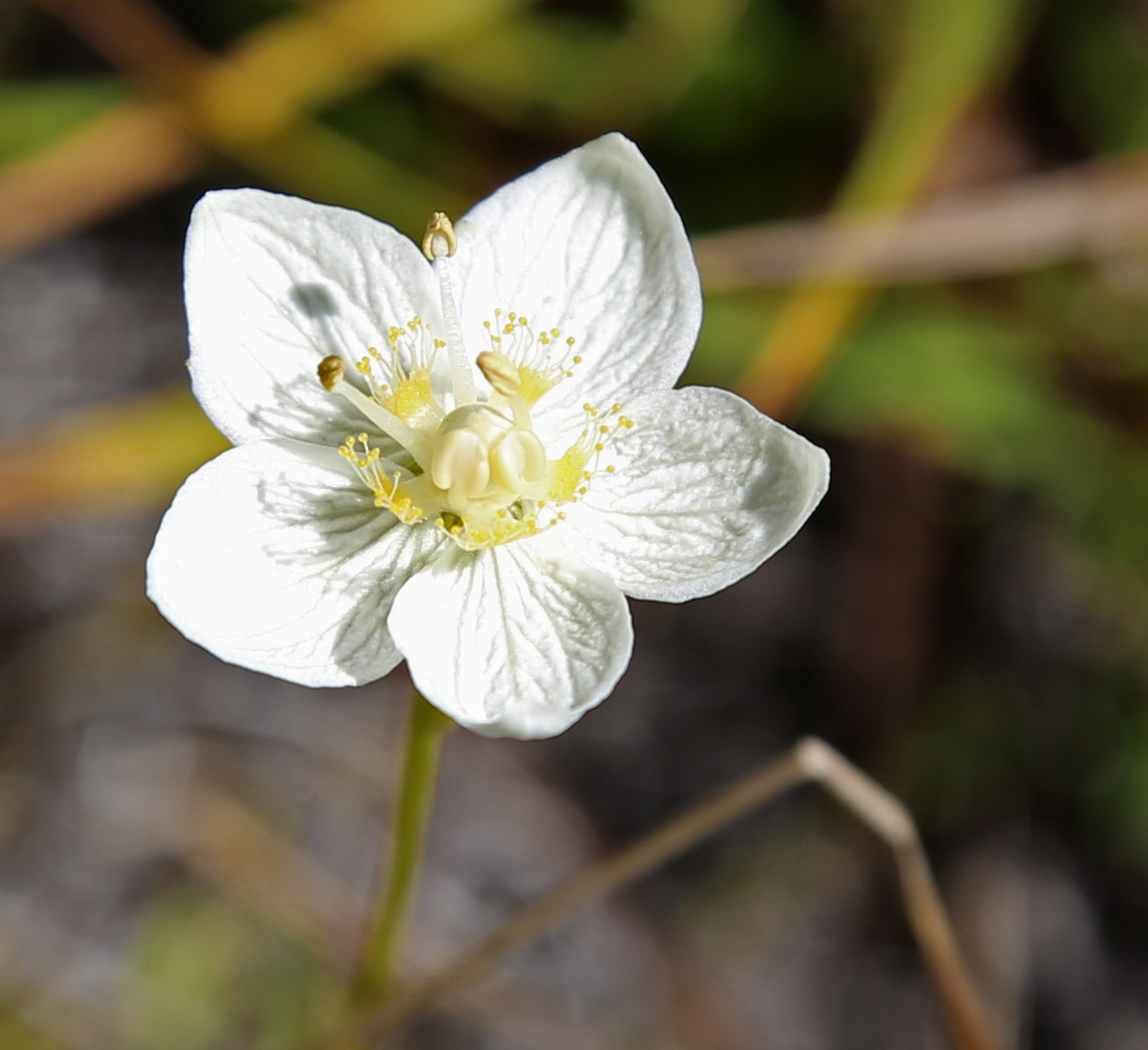 Grass-of-Parnassus (Parnassia californica) flower detail, showing the open bowl of five white, veined petals, central ovary, five large fertile stamens between the petals, and a wide, fringed, yellow, infertile stamen centered at the base of each petal. At 10,300 ft (3,100 m) by Shell Lake, Mine Creek Valley, near Tioga Pass, California USA.